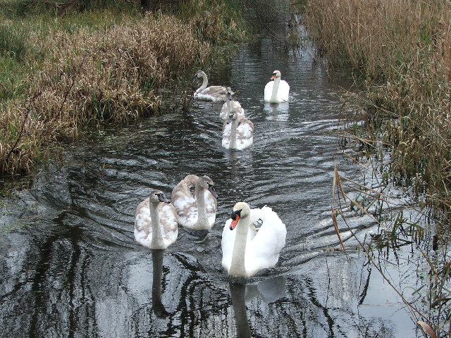 Magor Marsh Nature Reserve. Seven swans a-swimming on Christmas Day 2005. Gwent Wildlife Trust look after this SSSI which has the last traditionally managed remnant of fenland in the Gwent Levels.